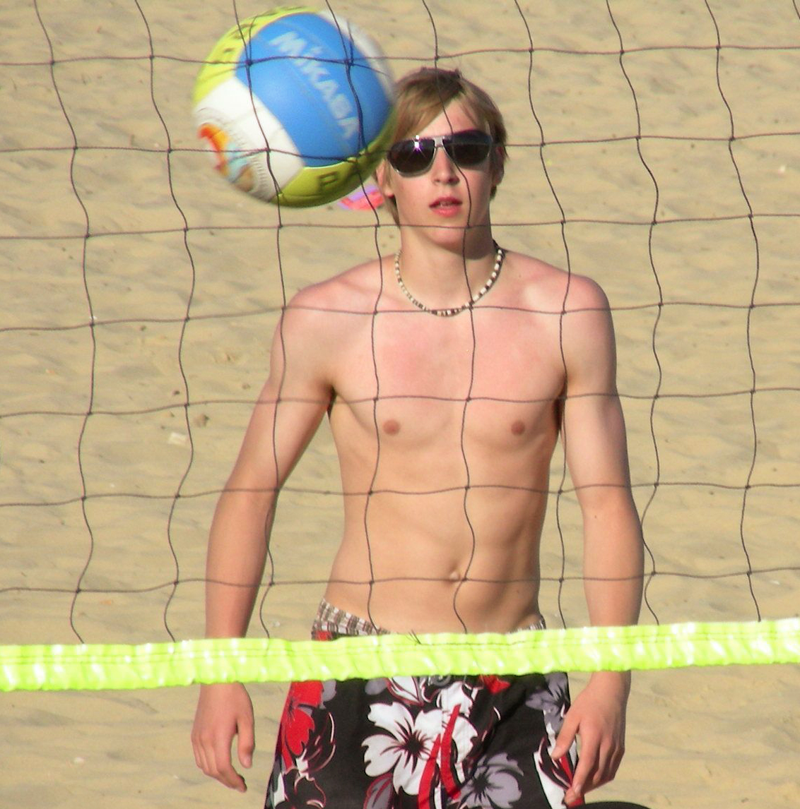 Playing volleyball at the beach in 2009